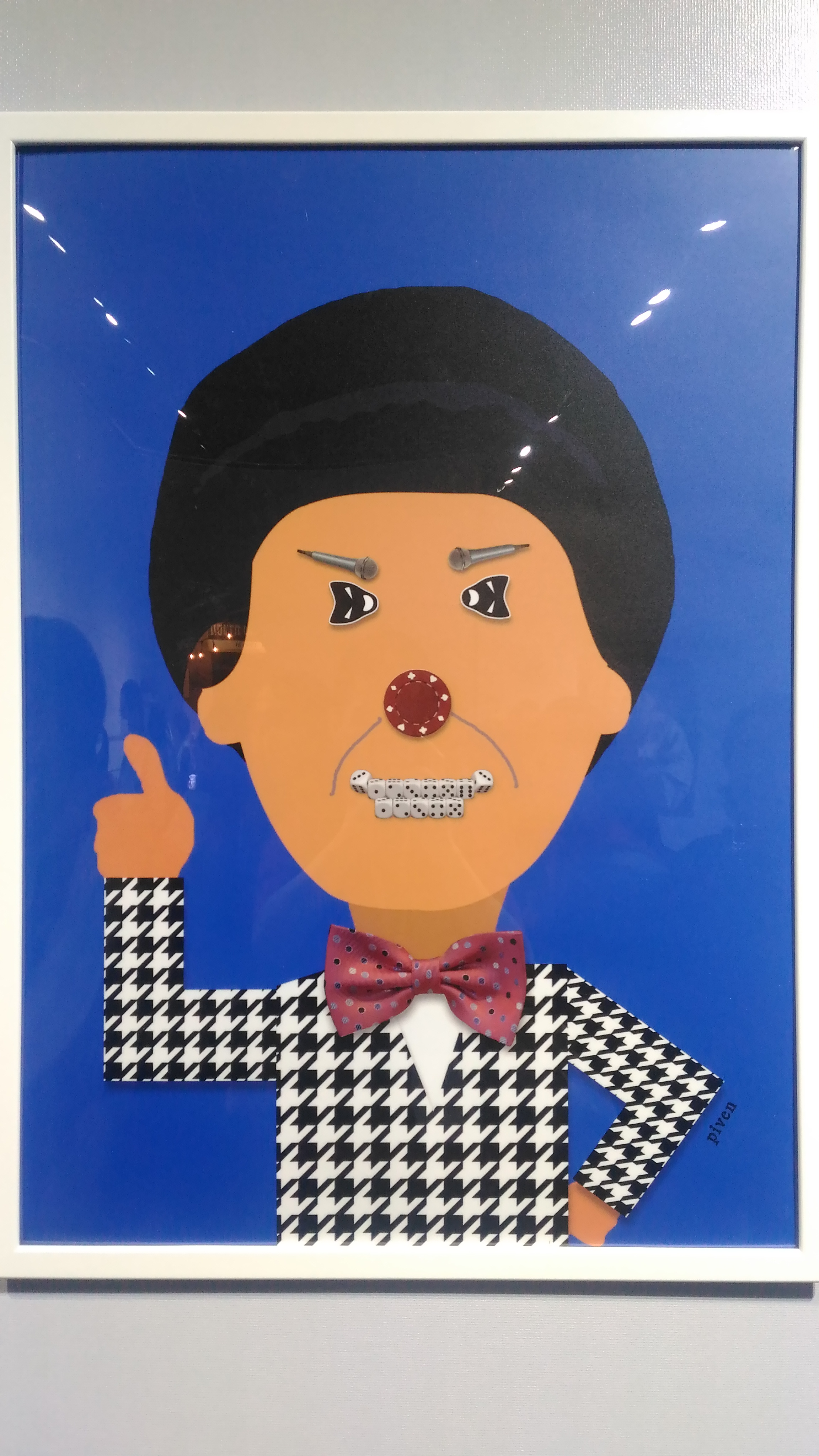 Hanoch Piven, Israeli mixed media artist, made an improvised collage art in memory of Chu Ke-liang, a decreased Taiwanese entertainer, in the 2018 Taipei International Book Exhibition.